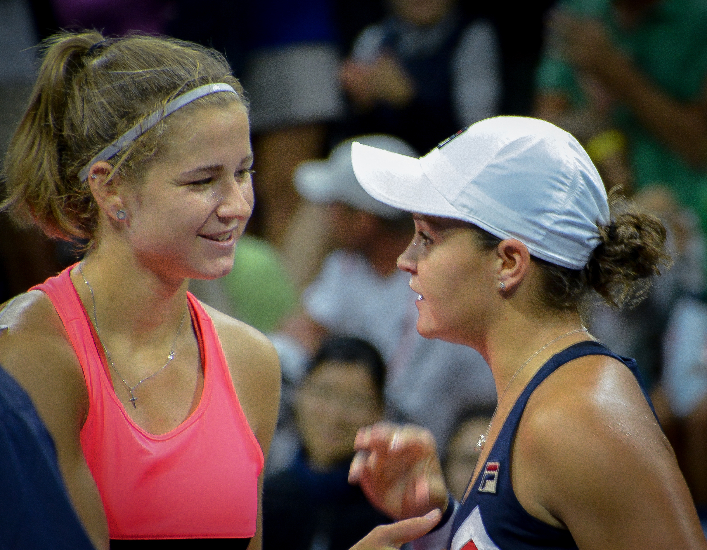 Ash Barty beat Karolina Muchova 6-3, 6-4 (3rd round). Day 5 of US Open 2018.